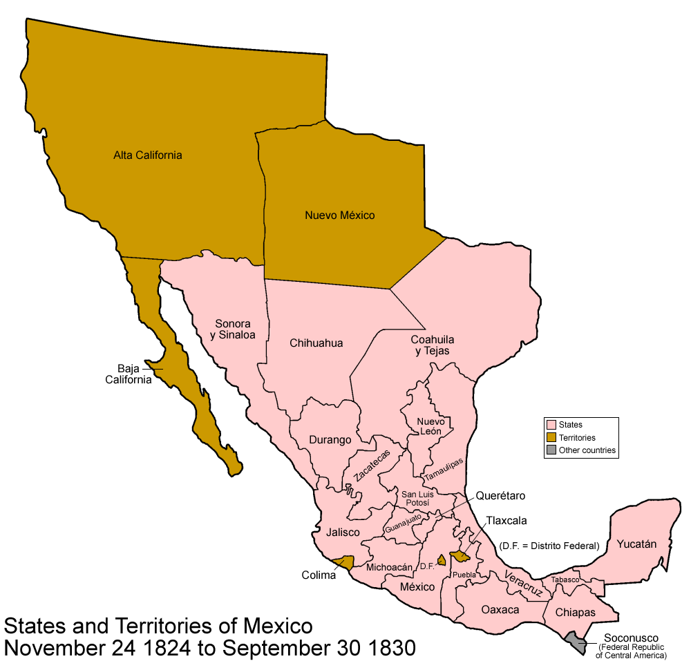 Map of the states and territories of Mexico as they were from November 24 1824 to 1830.